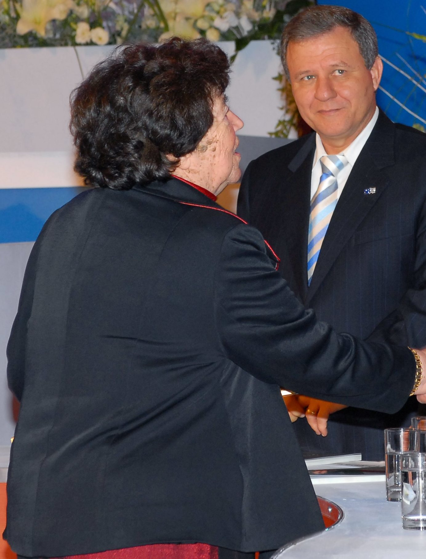 Israel prize award ceremony on Israel's 58th independence day. l- prof. Miriam Ben Peretz receiving the prize. 2nd r- pres. Moshe Katsav. 3rd r- interim p.m Olmert.